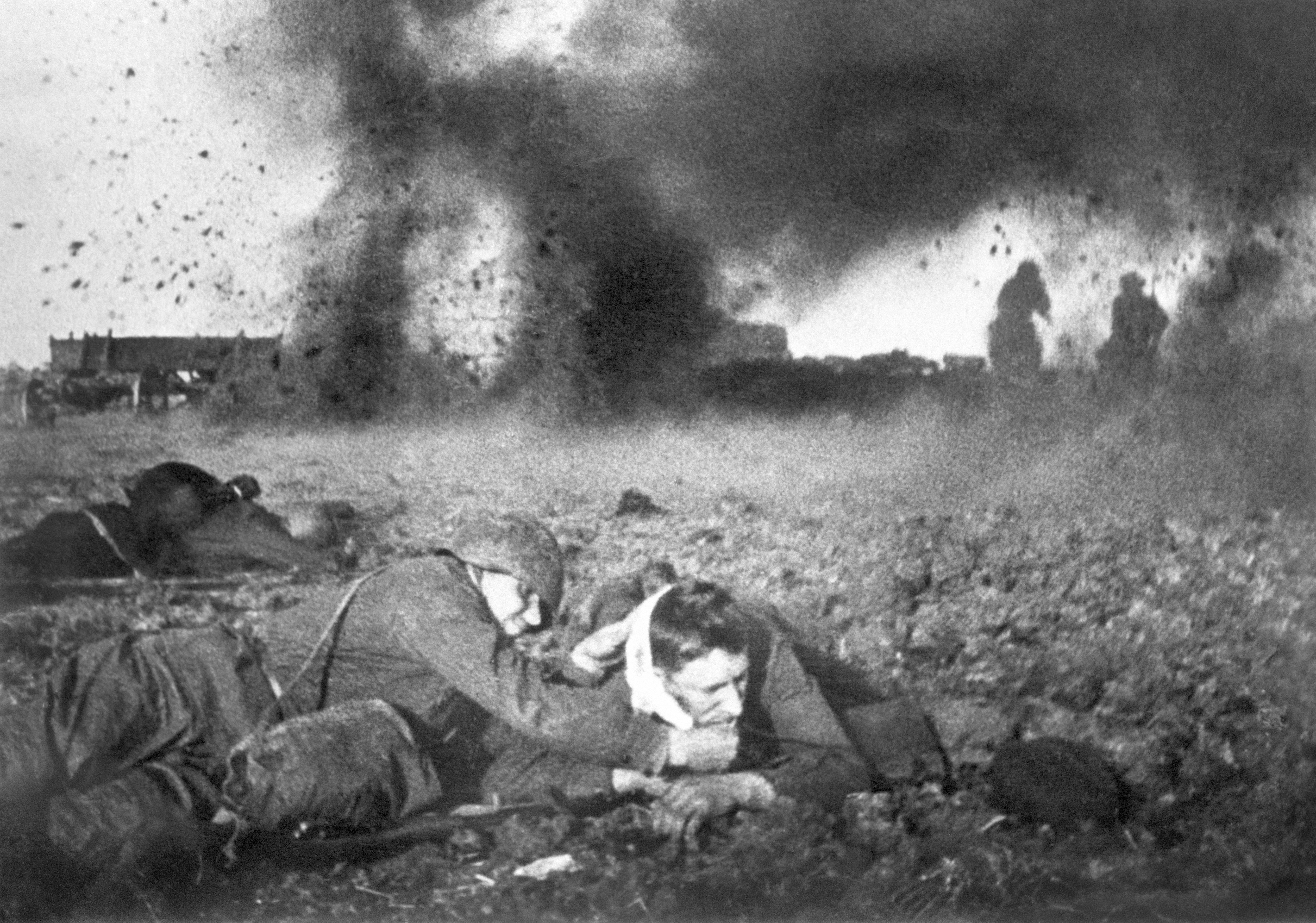 “Fighting in the vicinities of Moscow”. The Great Patriotic War of 1941-1945. Fighting in the vicinities of Moscow was fierce.